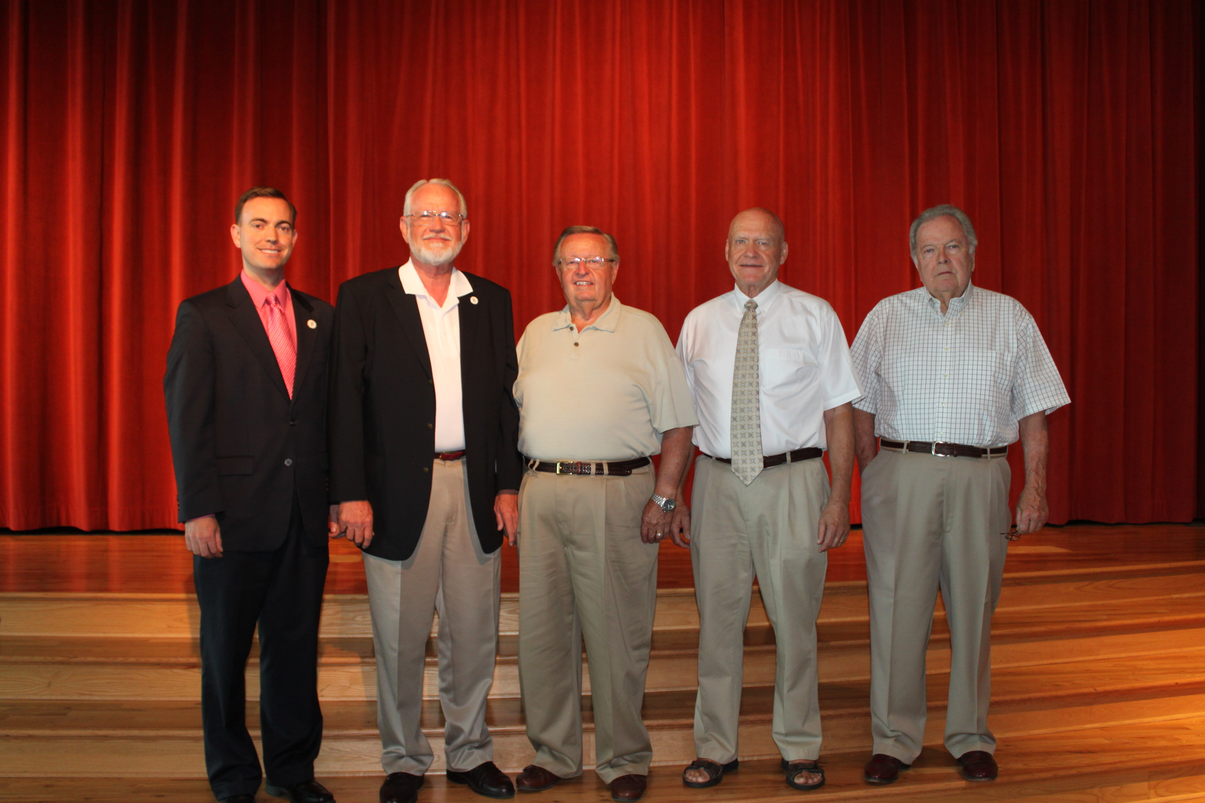 All city mayors living at the time, L-R: Mike Winder, Dennis Nordfelt, Brent Anderson, Michael Embley, Gerald Maloney